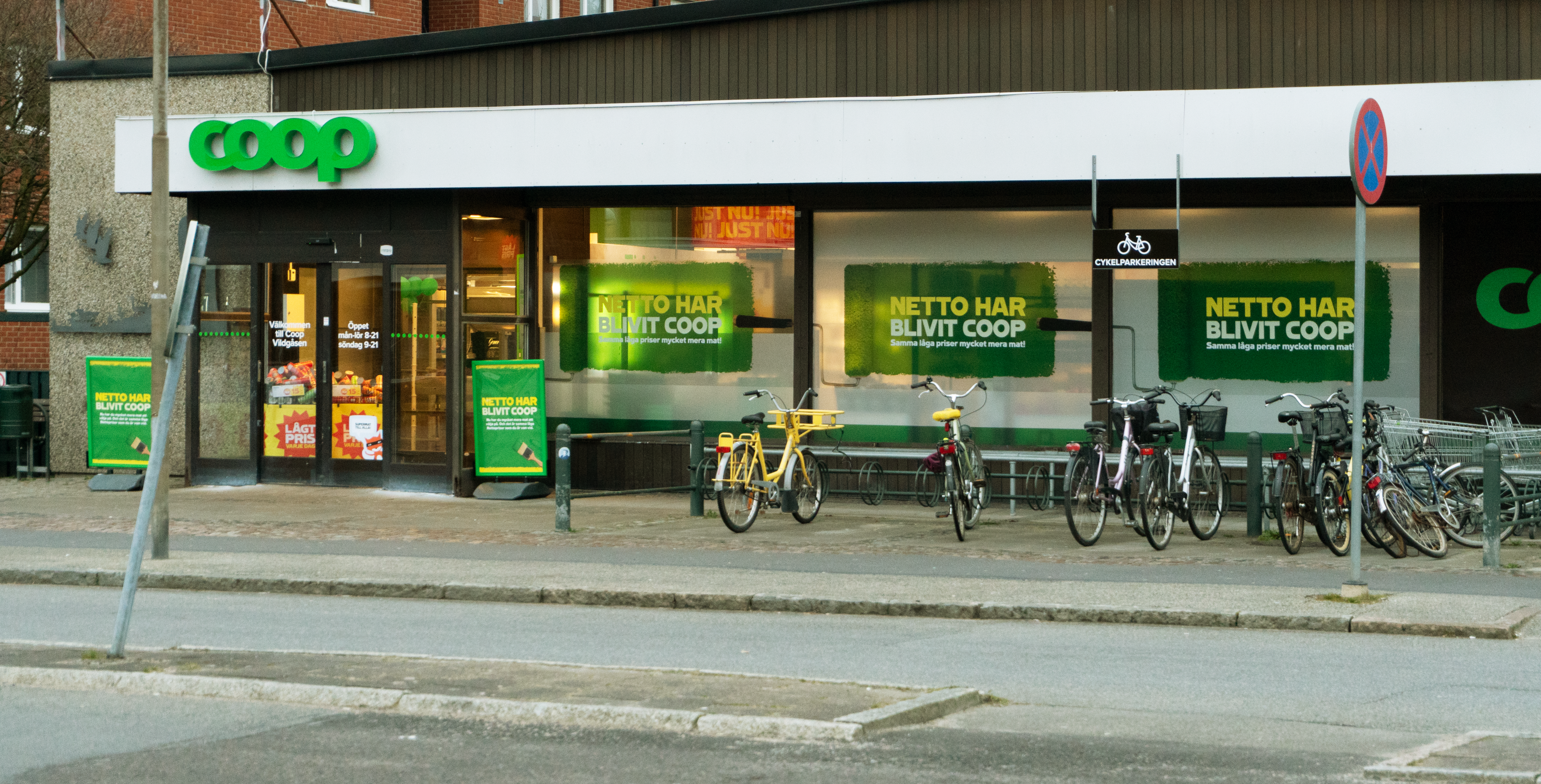 A Coop store in Lund, Sweden, that has recently been converted from being a Netto store (March 2020).